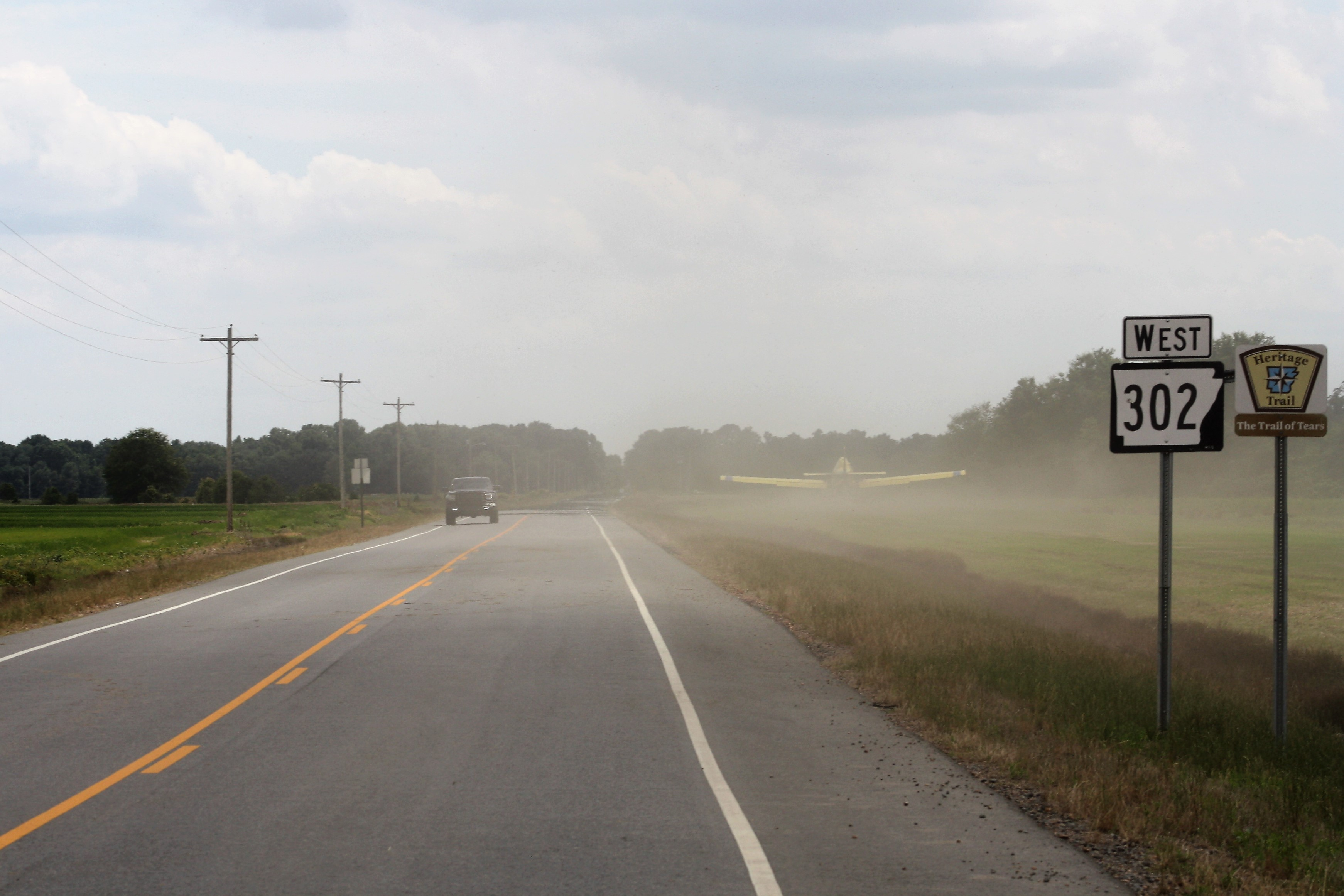 Highway 302 first reassurance marker south of the Highway 241 intersection in Monroe County, Arkansas. Crop duster plane taking off on grass runway to right